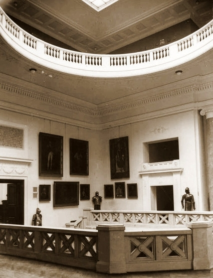 Interior of the Krasiński Estate Library in Warsaw.[1] Burned down as a result of severe bombardment by the Germans on 25 September 1939 and on 5 September 1944.[1] The surviving collection was later deliberately burned by the Germans in October 1944[1]